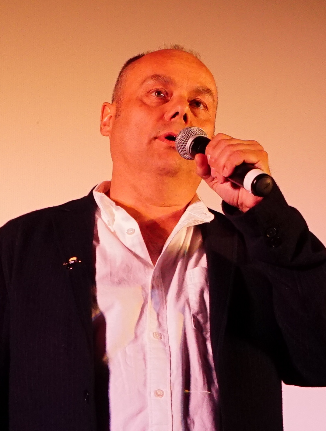 Mark Burton, co-writer and co-director of Shaun the Sheep Movie, promoting the film at the San Francisco Film Society